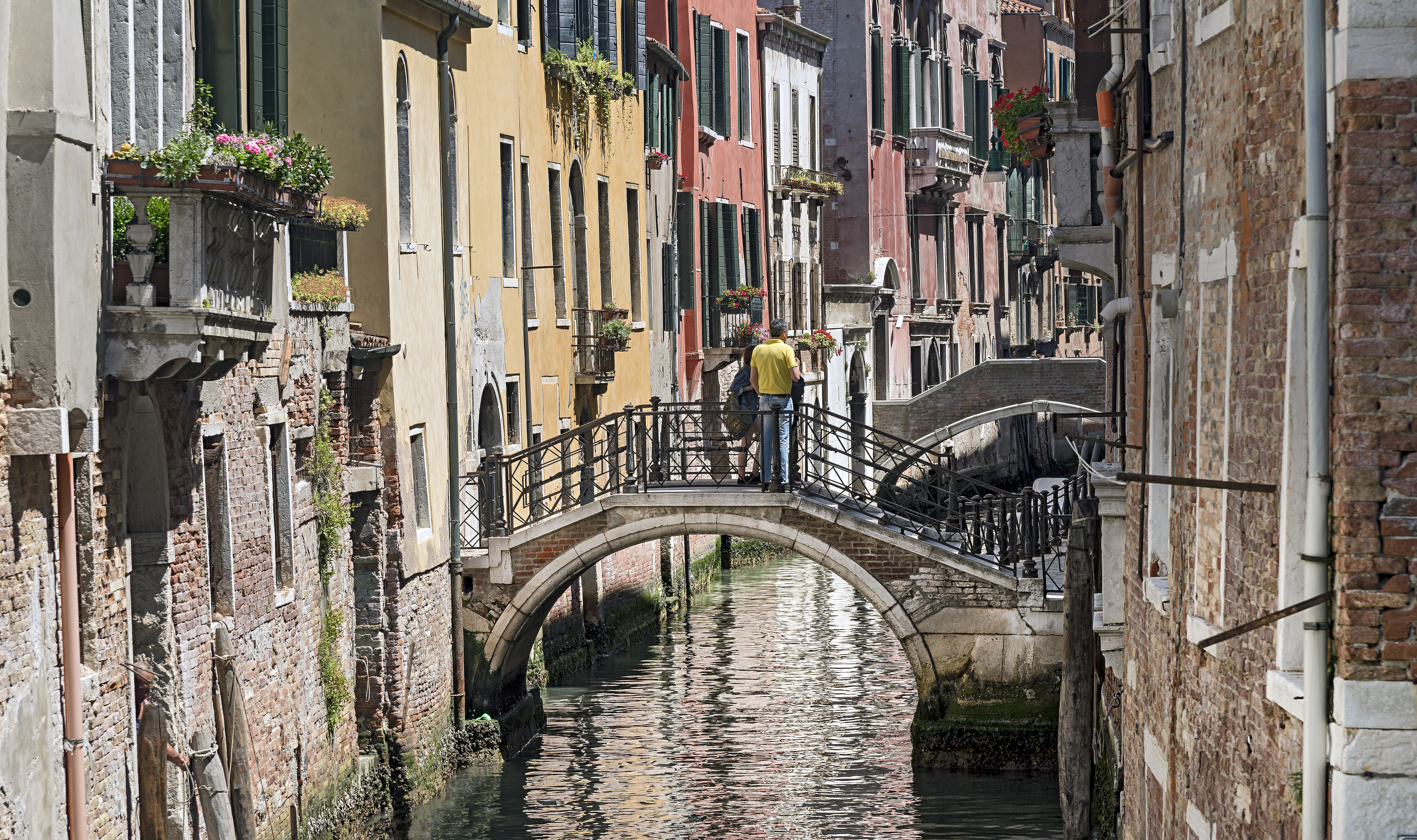 Ponte de l'Ospedaletto, on rio de San Giovanni Laterano in Venice.